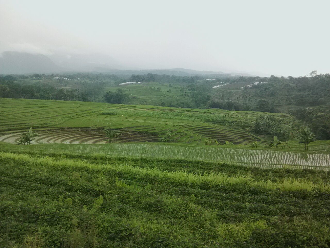 Hamparan tanaman padi di persawahan Kedungudi. Dengan sumber air dan lokasi di bawah gunung Penanggungan, padi di desa ini bisa panen sepanjang tahun.